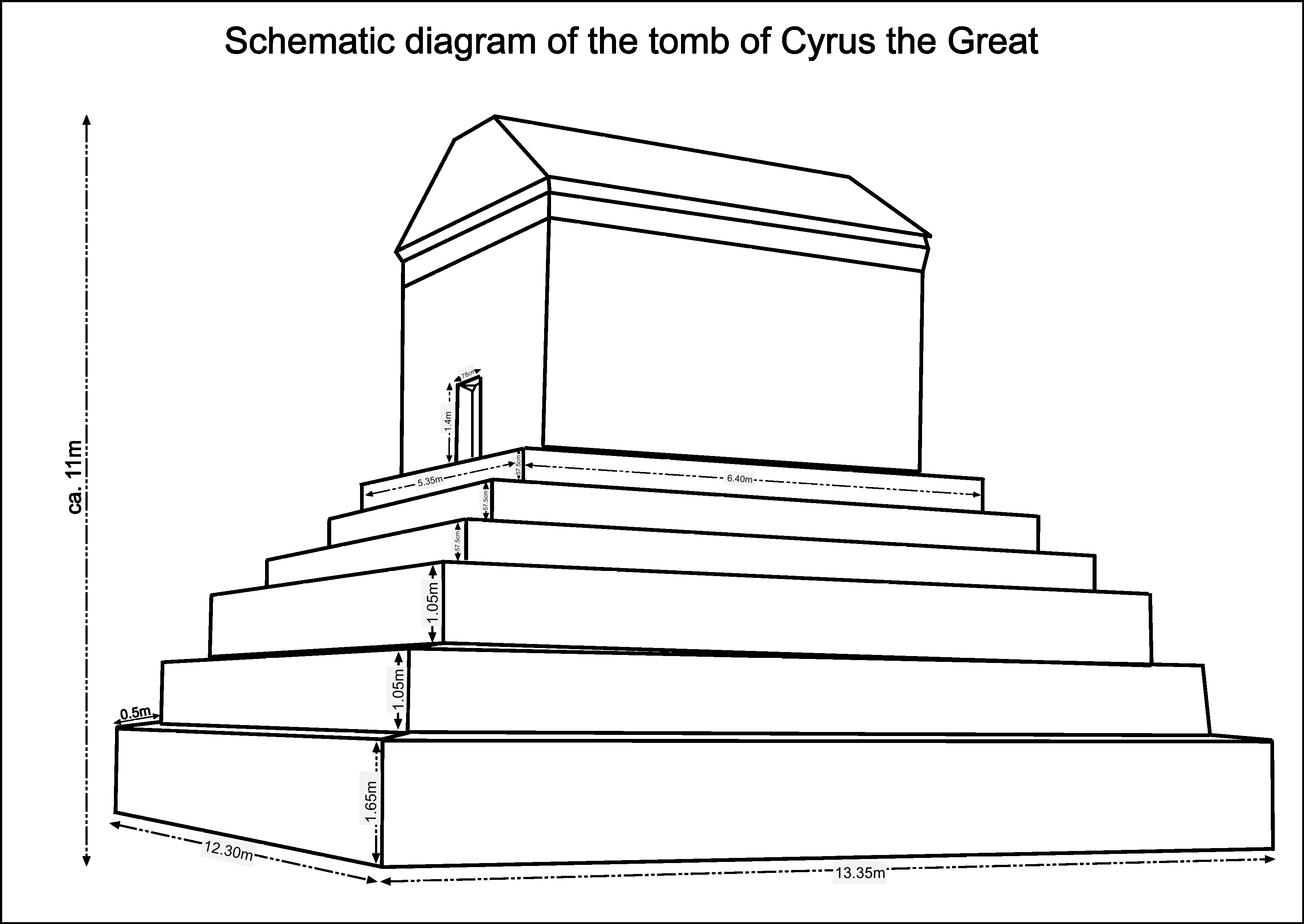 Diagram of the tomb of Cyrus the Great